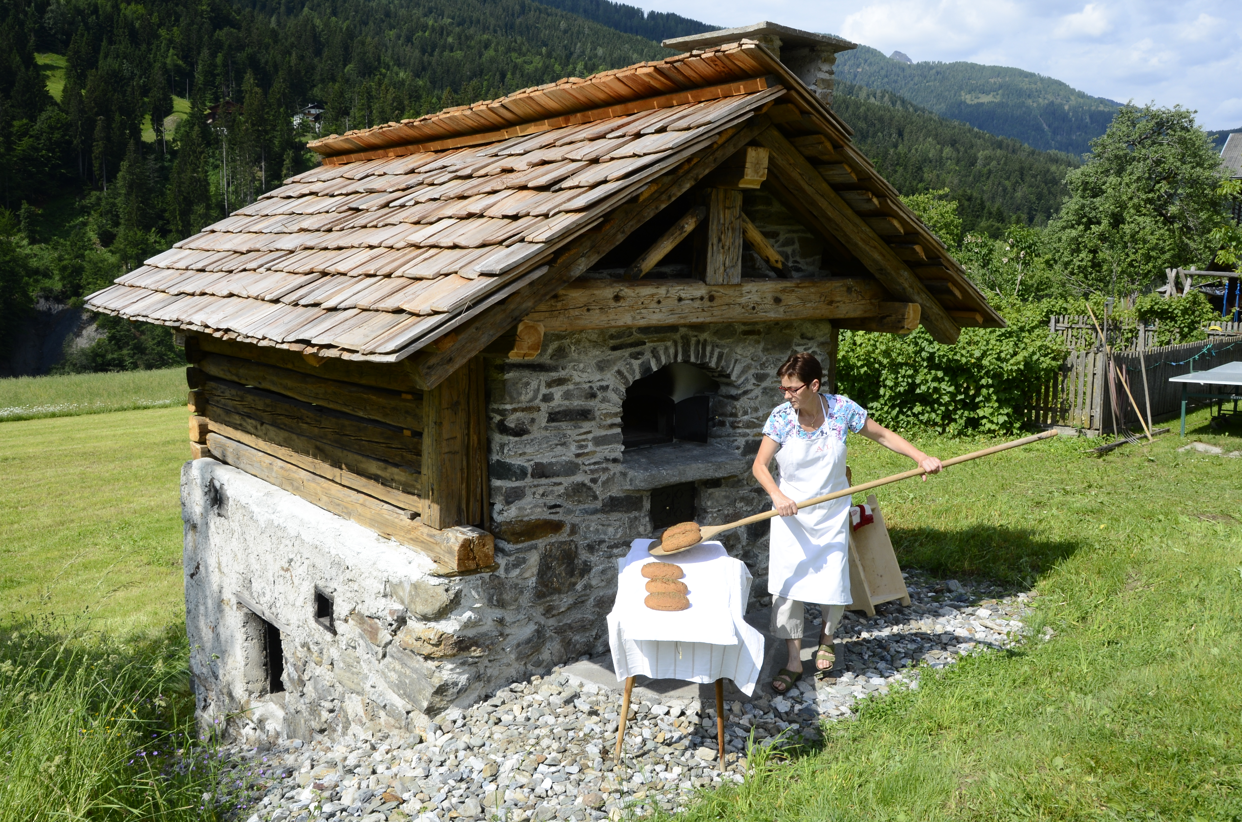 Bread oven on Stabentheiner Hof at Stabenthein #1, Liesing, municipality Lesachtal, district Hermagor, Carinthia / Austria / EU